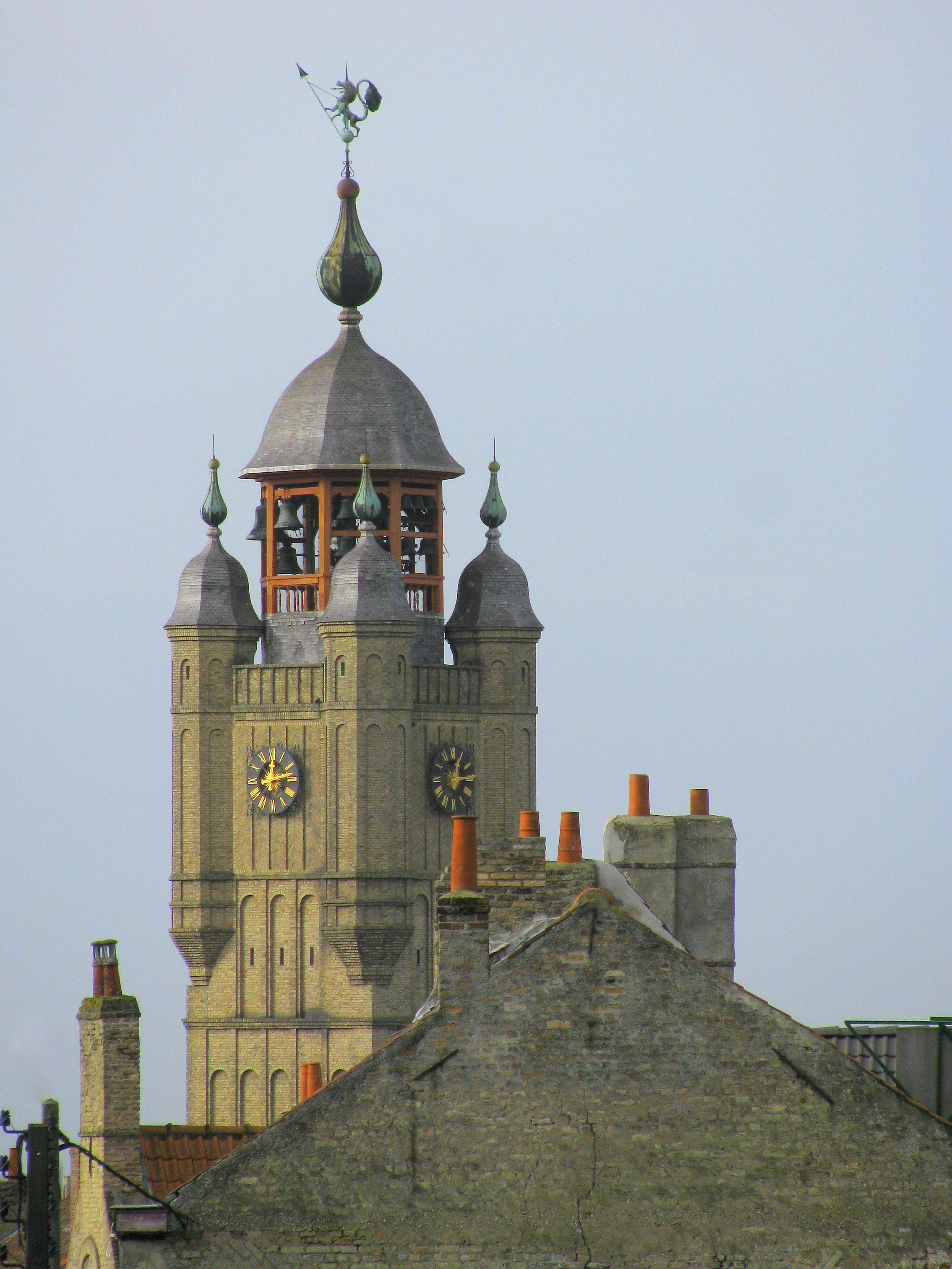 Belfry of Bergues